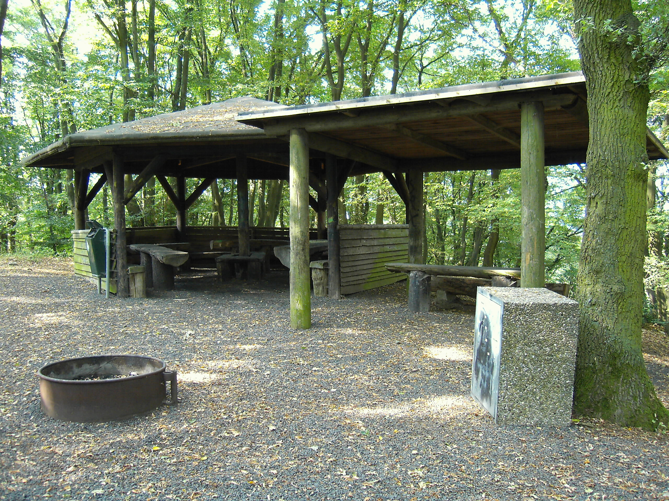 Summit hut of the hill Hupperichsberg (about 300m) in Aegidienberg, a municipal district of Bad Honnef.